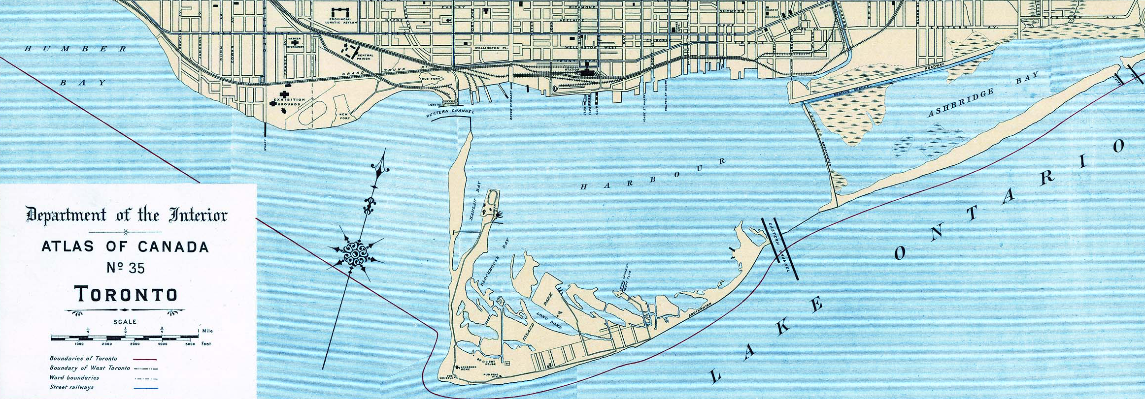 Excerpt of 1906 Canadian national atlas map of Toronto, showing Toronto harbour.